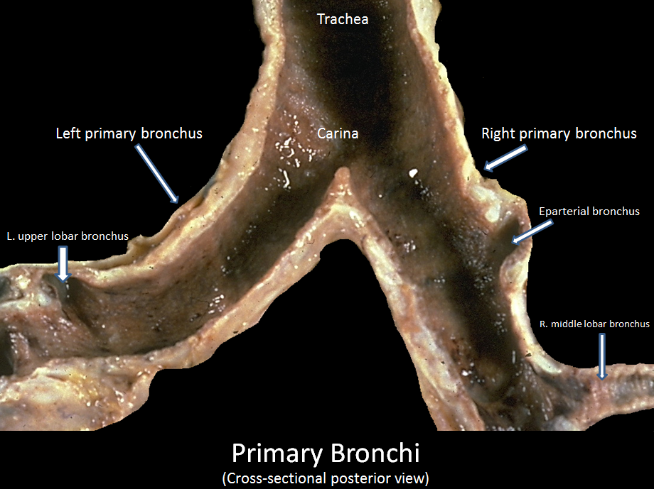 Primary bronchi cross-sectional posterior view.